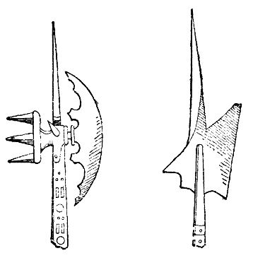 Swiss helberds from the 15th century